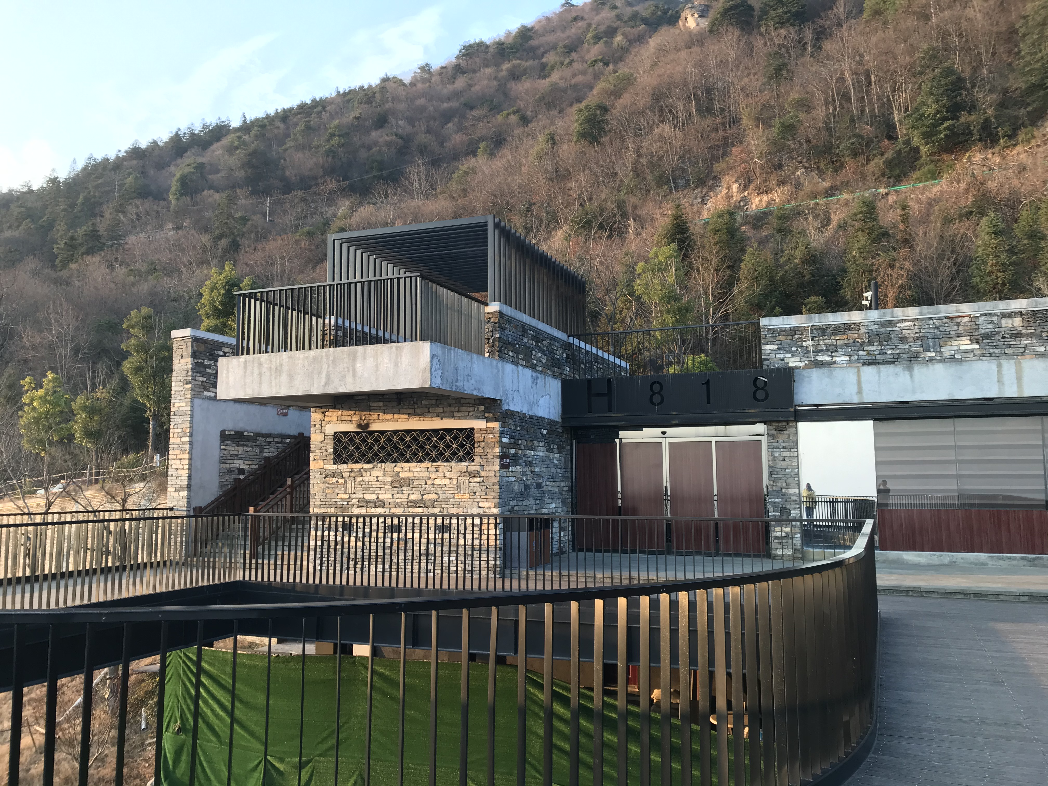 201912 Overview of H818 Observation Deck